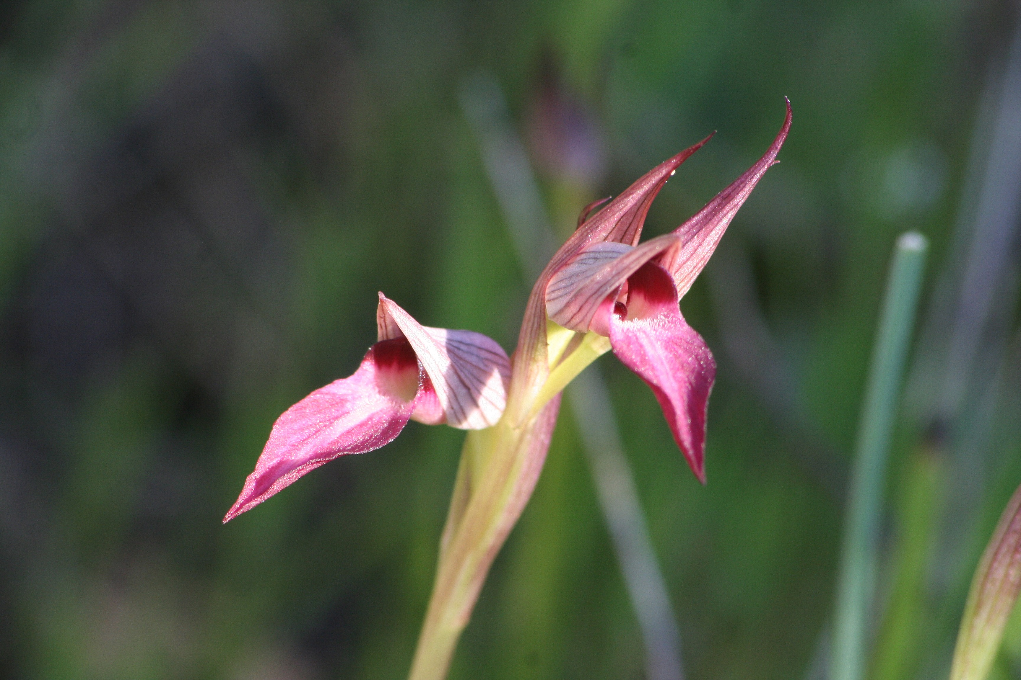 Serapia lingua Algarve Portugal